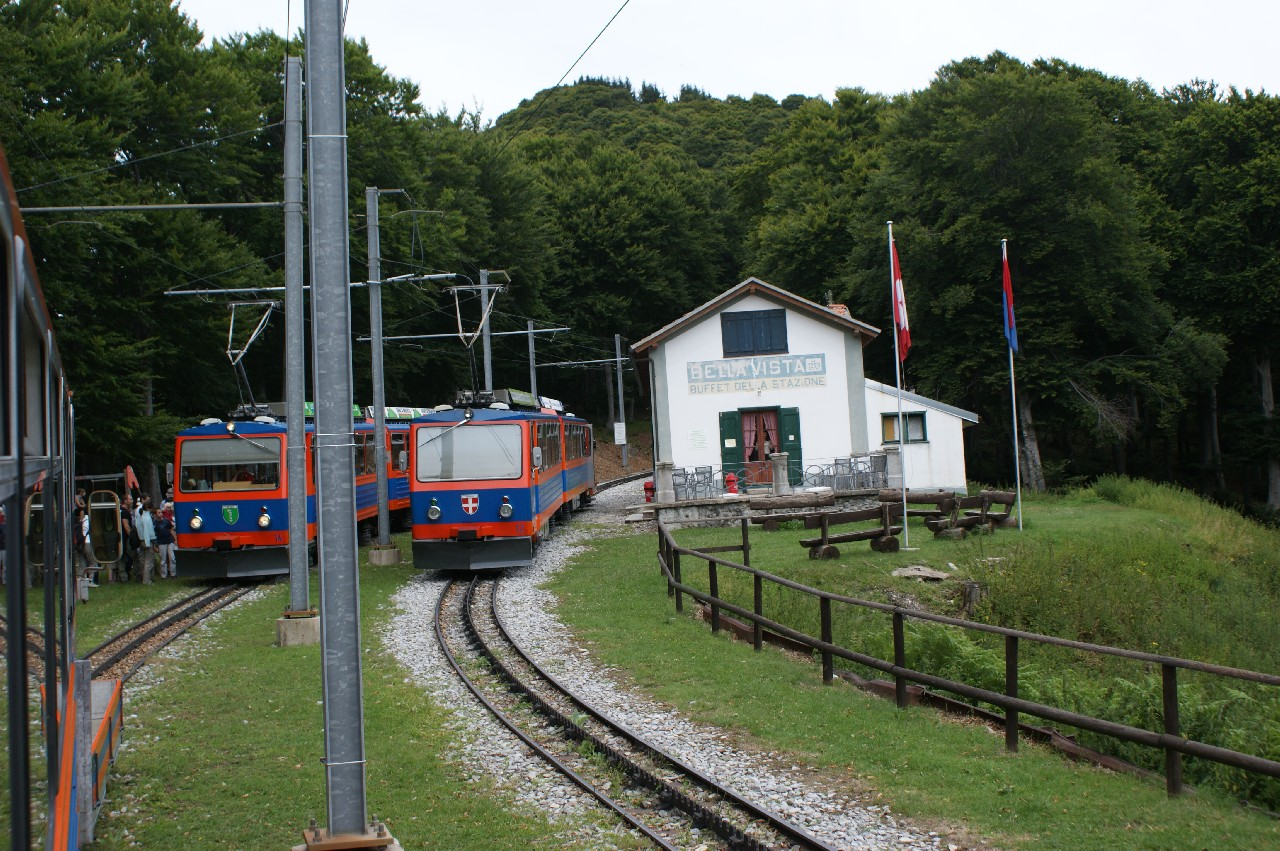 Monte Generoso Railway Bhe 4/8 13, 14 (to Capolago-Riva S. Vitale) and 12 (to Geneoroso Vetta) at Bella Vista